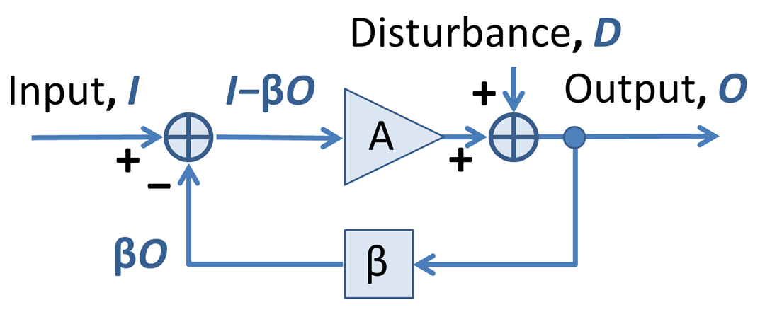 Negative feedback amplifier with disturbance. Similar to Marc Thompson's figure